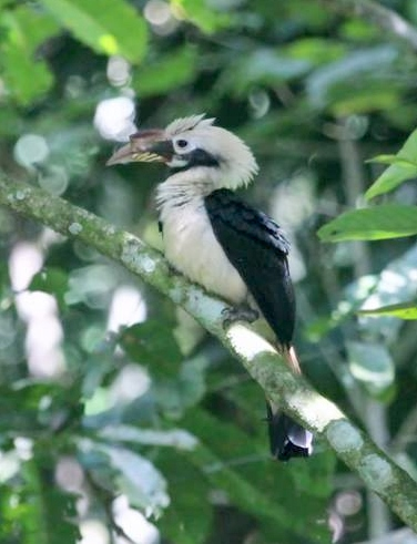 Penelopides affinis